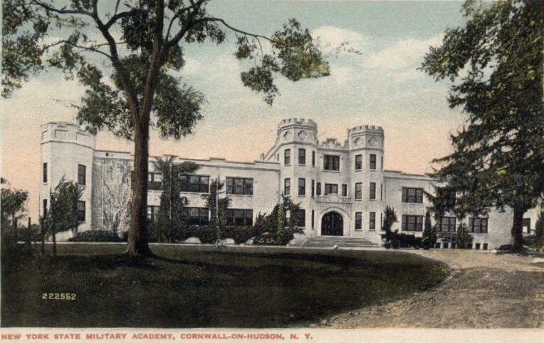 New York Military Academy, Academic Building, postcard photo c. 1916